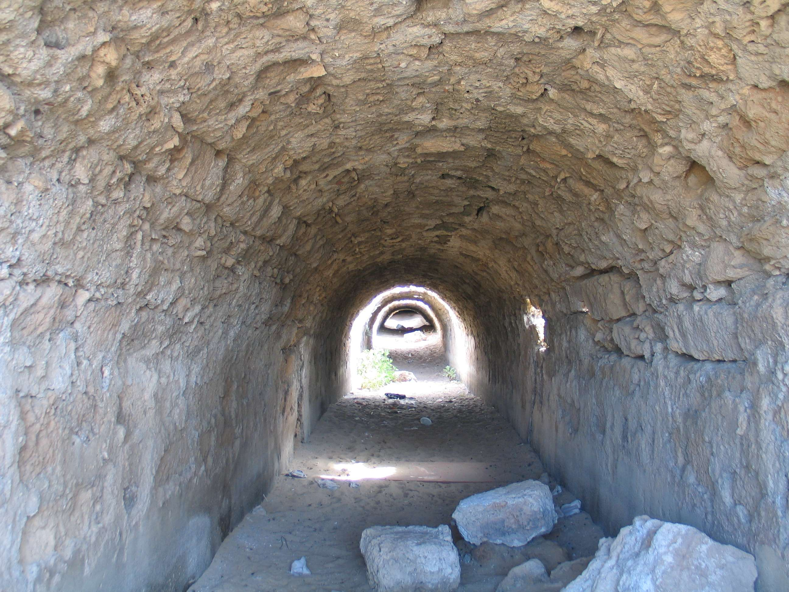 Caesarea Maritima, Israel. Low-level aqueduct.